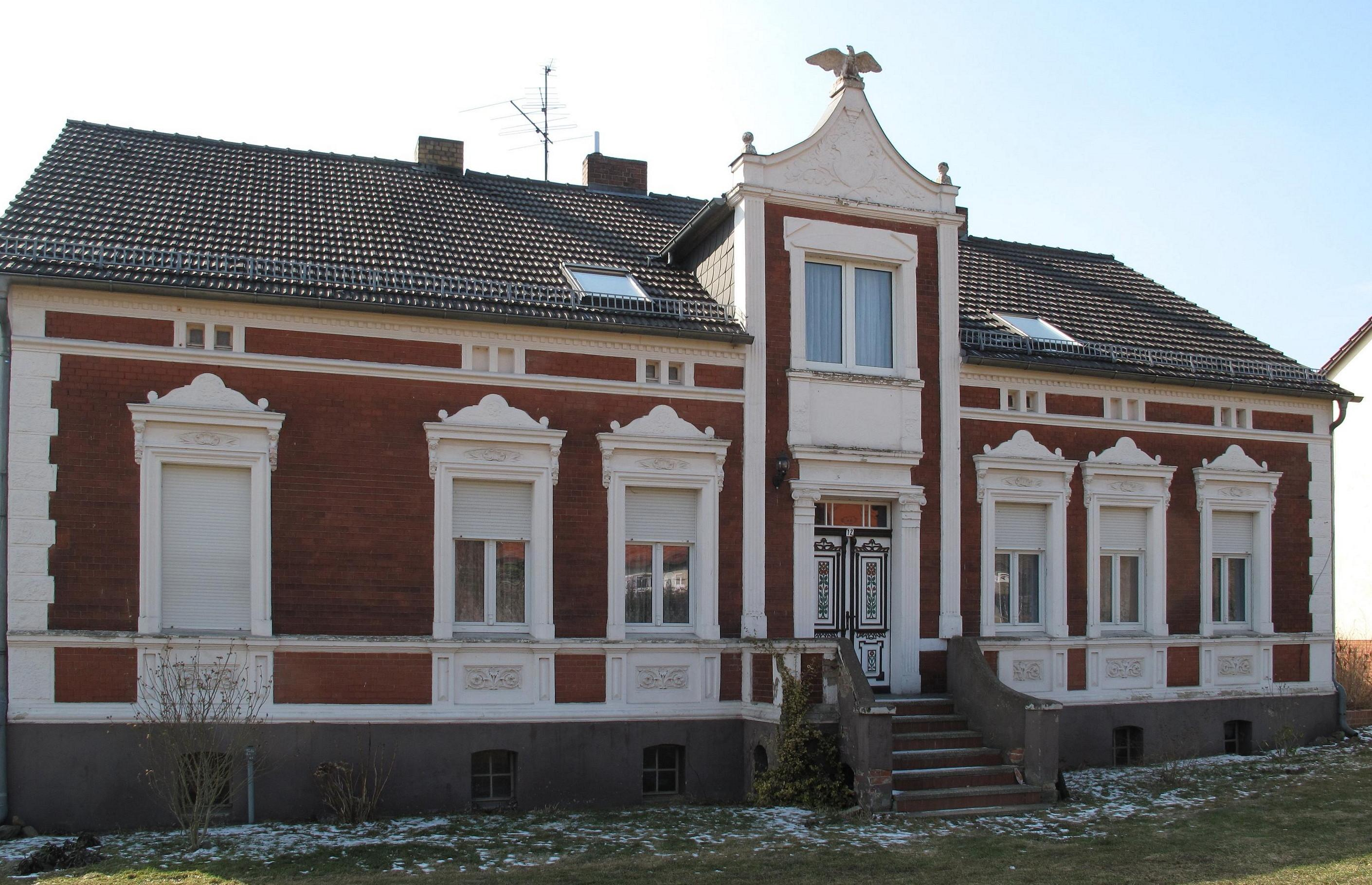 Listed farmhouse in Fresdorf. Fresdorf is a part of Michendorf in the district Potsdam-Mittelmark, state Brandenburg, Germany.